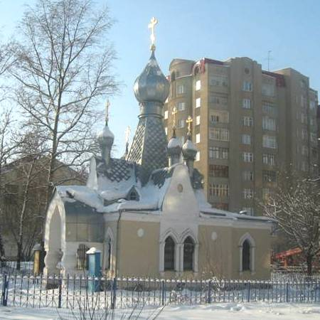 Tver, Chapel of St. John of Kronstadt (1913 by P. F. Bogomilov).